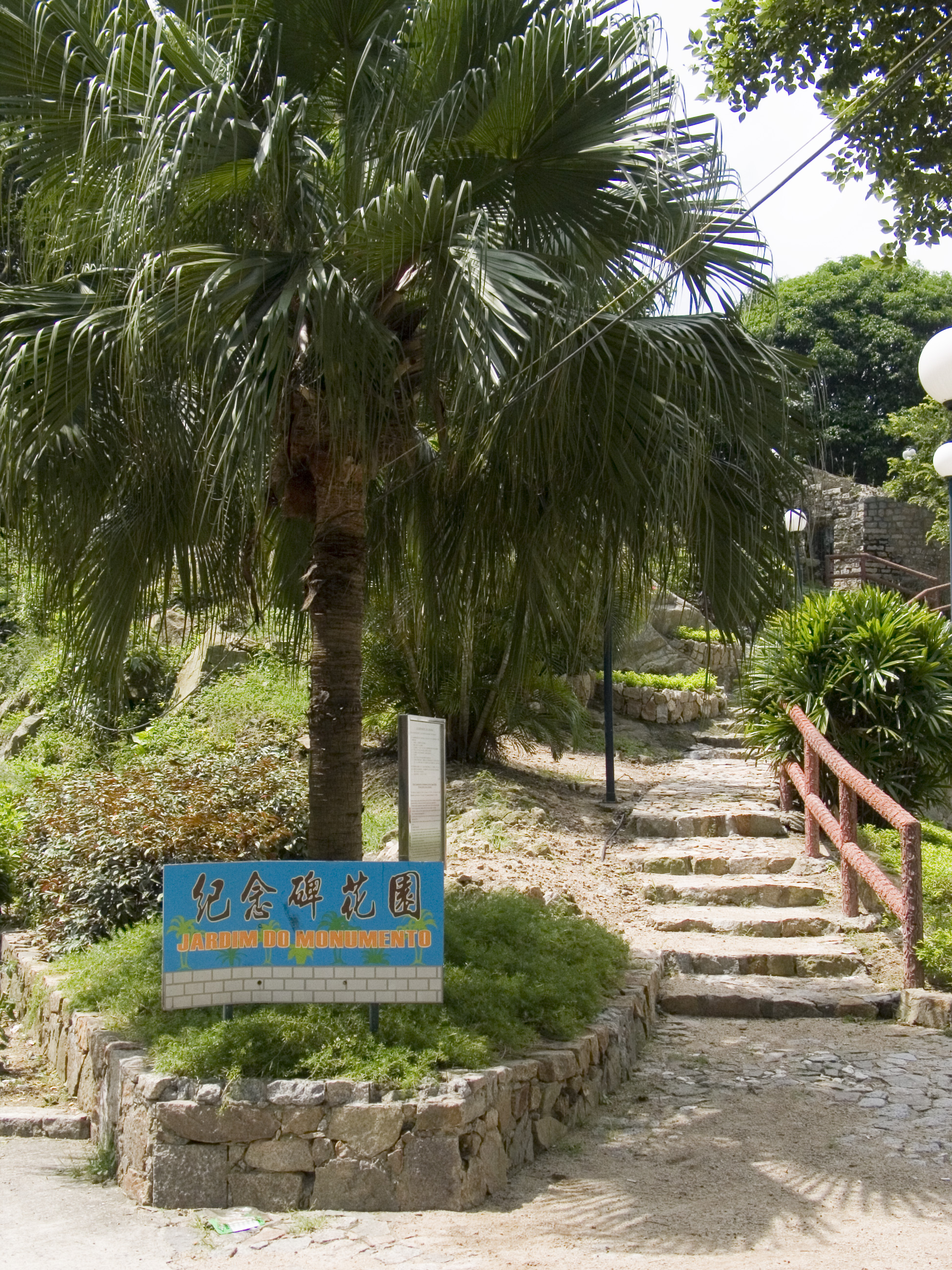 Entrance of Jardim do Monumento, Taipa, Macao taken by Glio